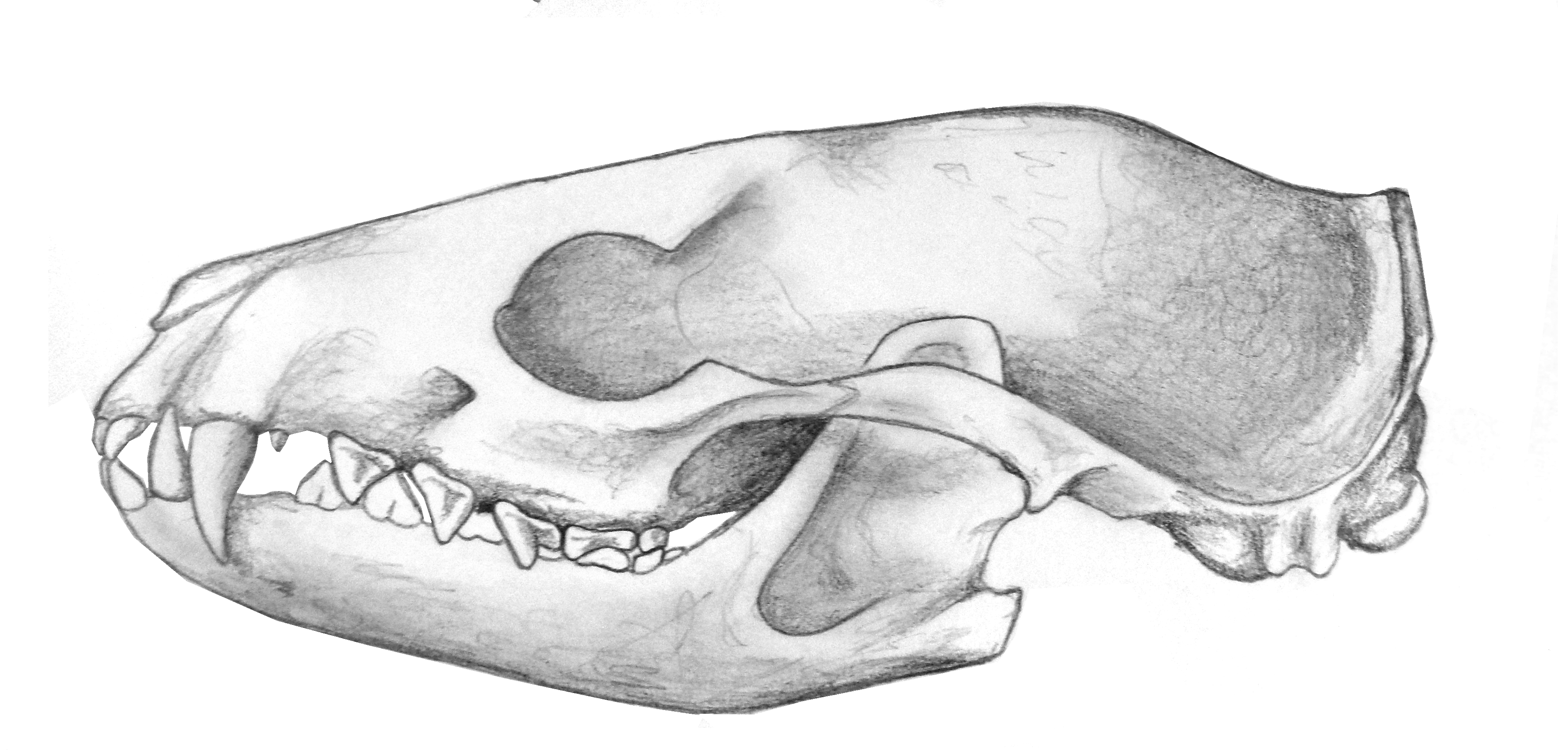 reconstructed skull of Miacis cognitus